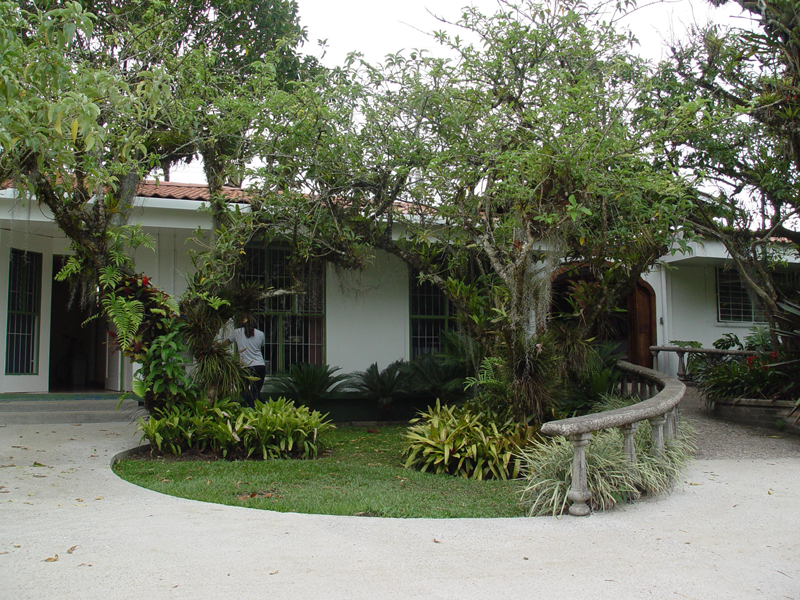 Lankester view